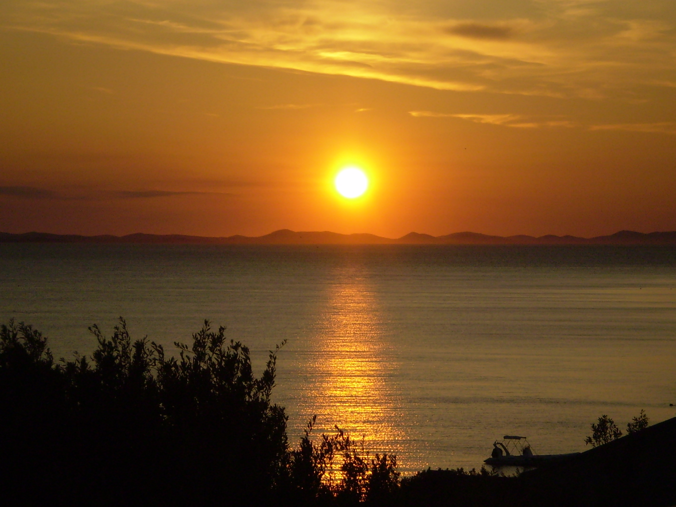 Sunset from Kožino near Zadar, Croatia.